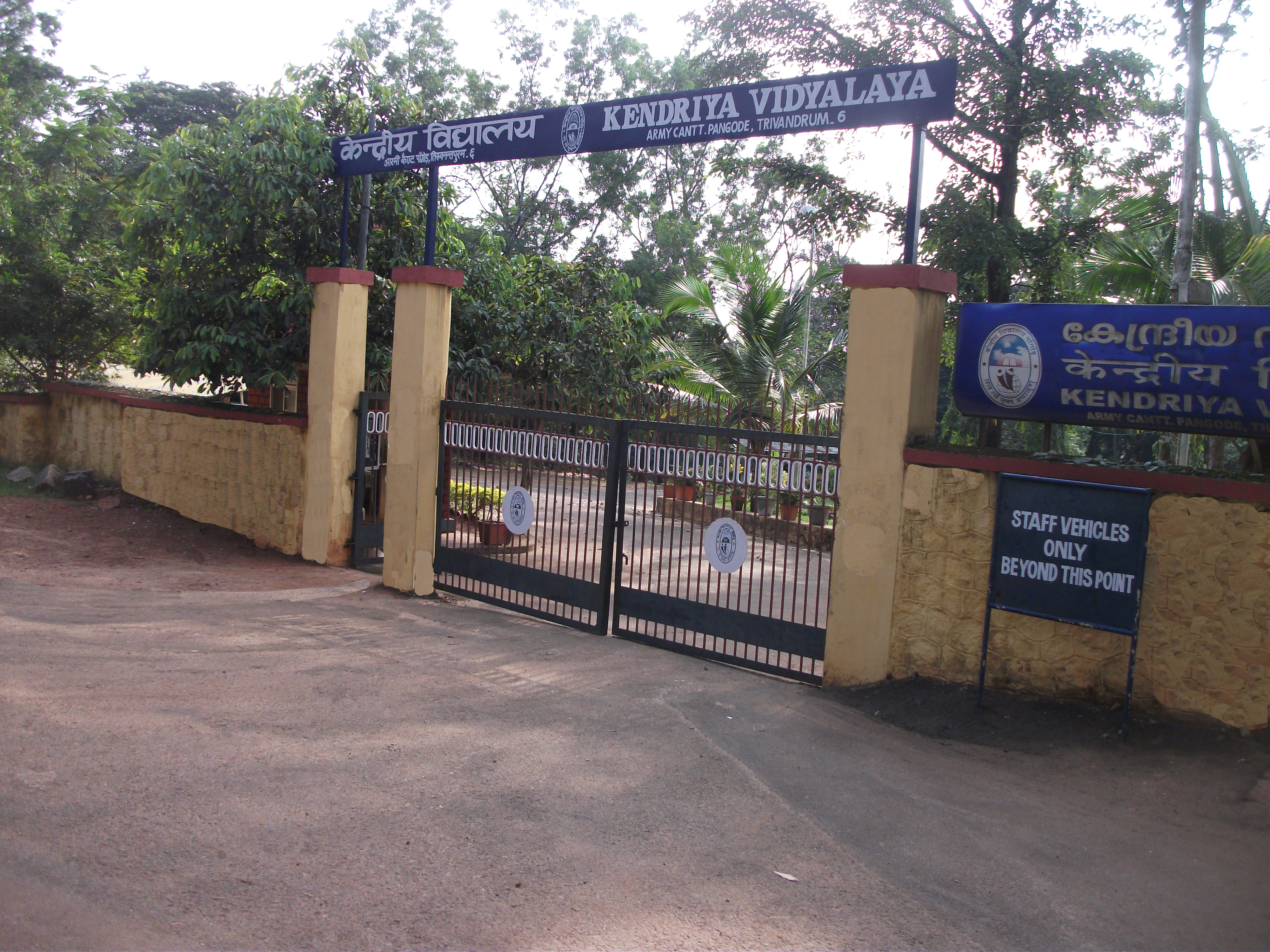 view of the gate of KV pangode